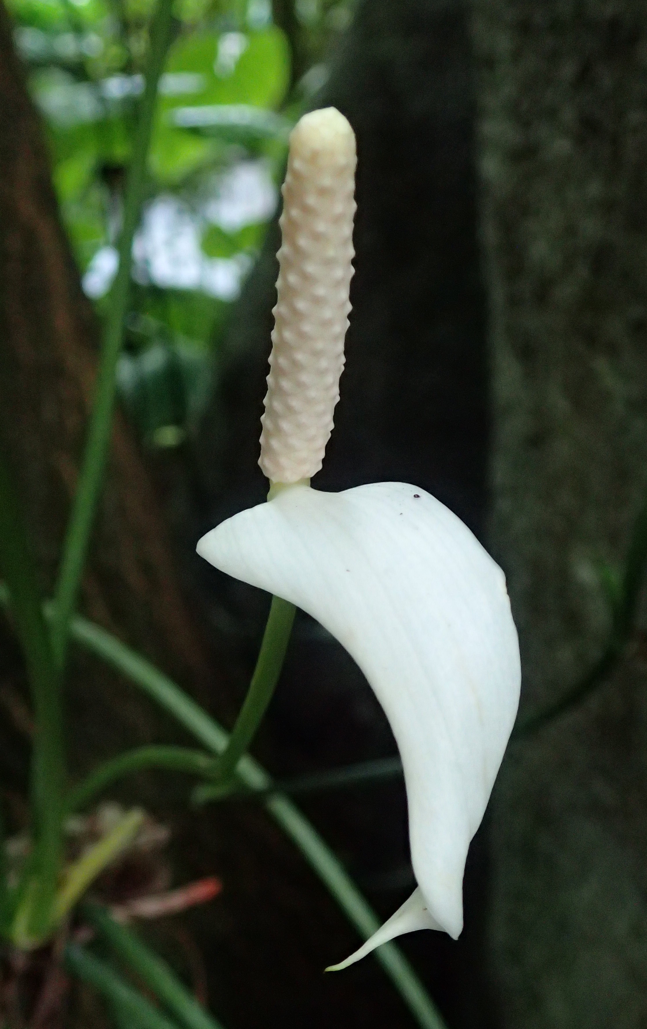 Anthurium nymphaeifolium at the New York Botanical Garden